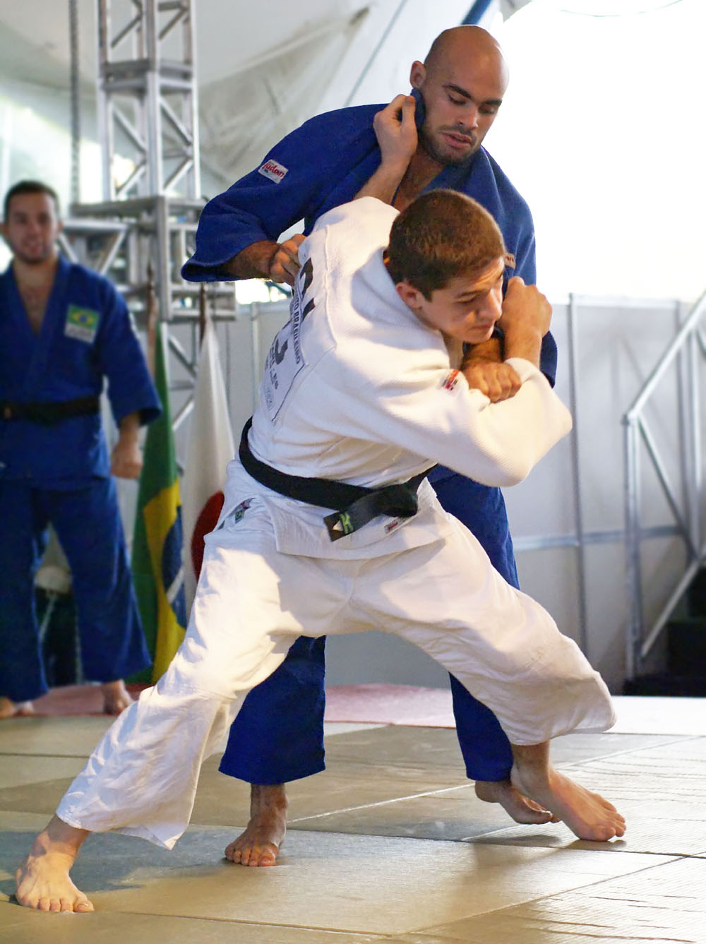 Tai otoshi